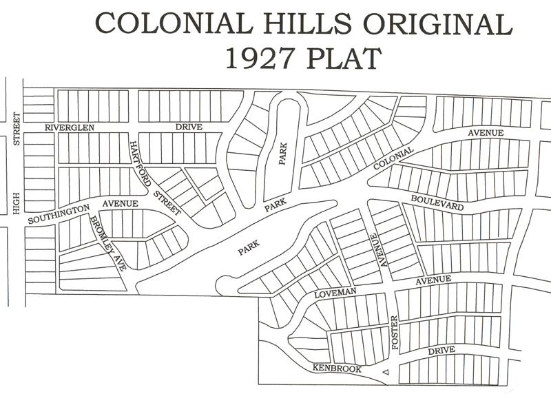 Original 1927 plat of Colonial Hills